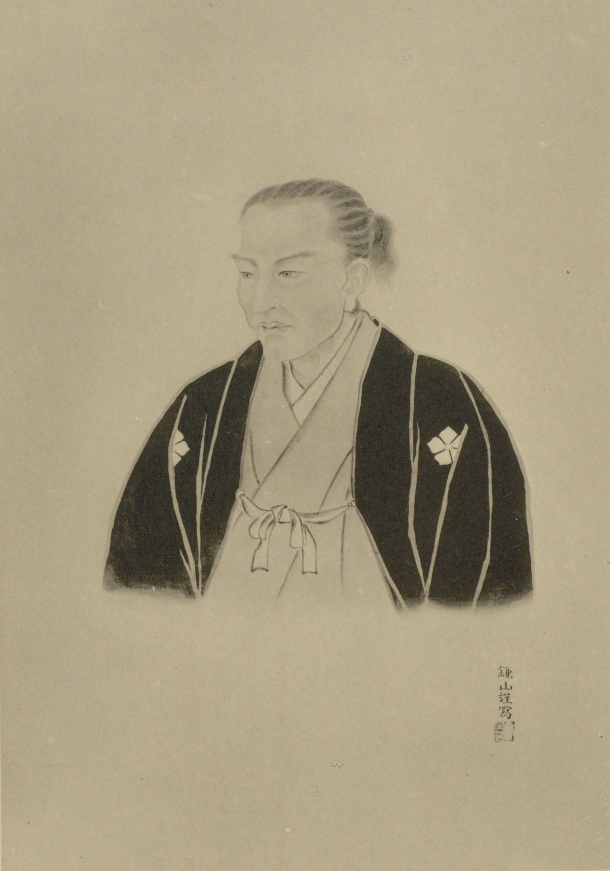 Portrait of Kagawa Shutoku